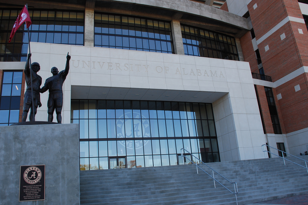 View of the entrance to the North endzone skyboxes, with player statues.